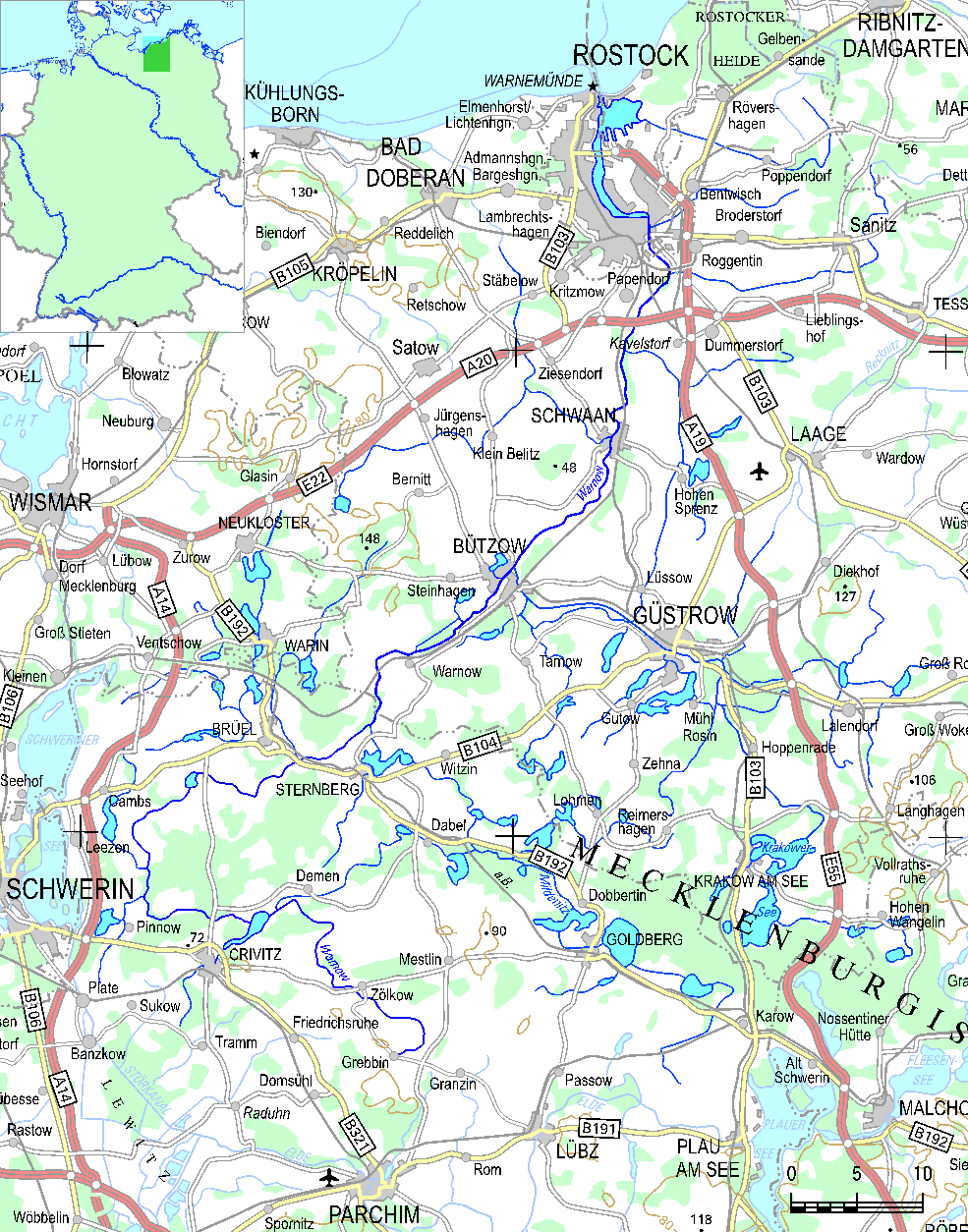 Cut of the survey map of Mecklenburg-Vorpommern 1:750.000, recoloured to emphasizy Warnow river and its affluents and passed lakes.